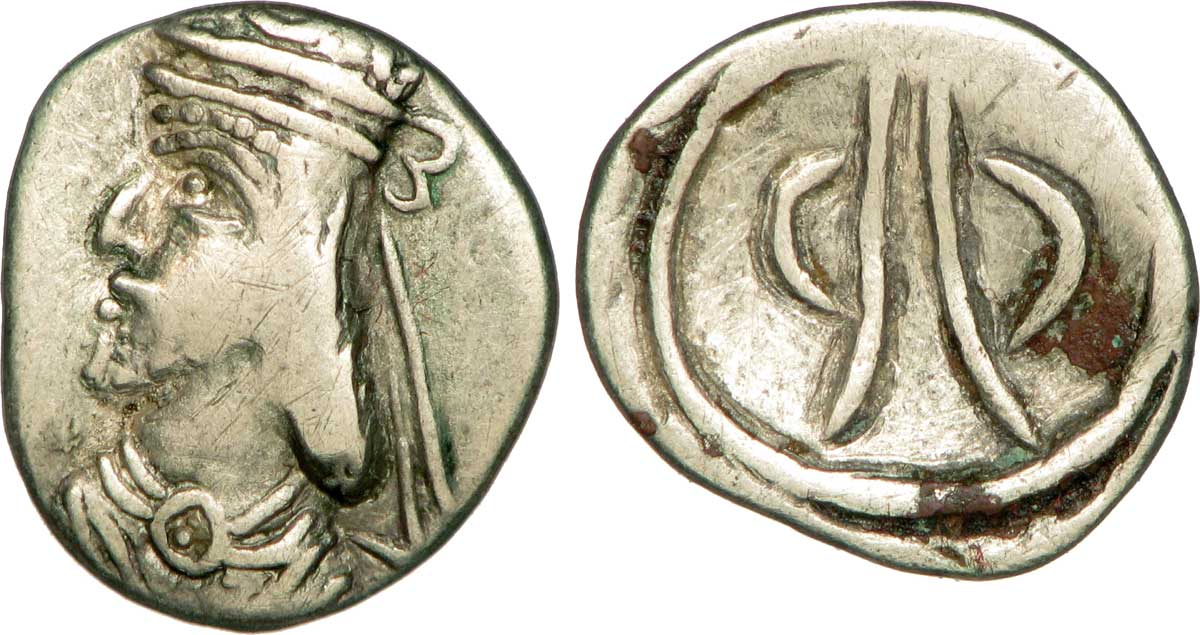 Hemidrachme du royaume de perside Date : c. 100 AC. - 100 AD. Nom de l'atelier/ville : Perside, Persépolis